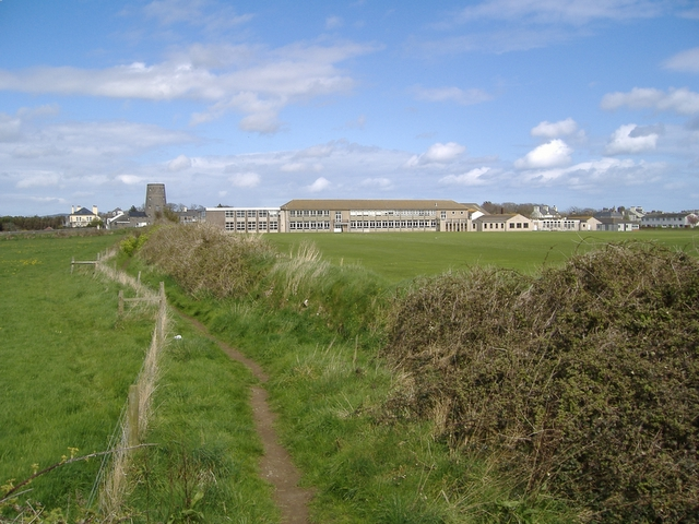 Castle Rushen High School, Castletown. Looking across the hedge into the playing fields. Also in view to the left, is the old Witches Mill.